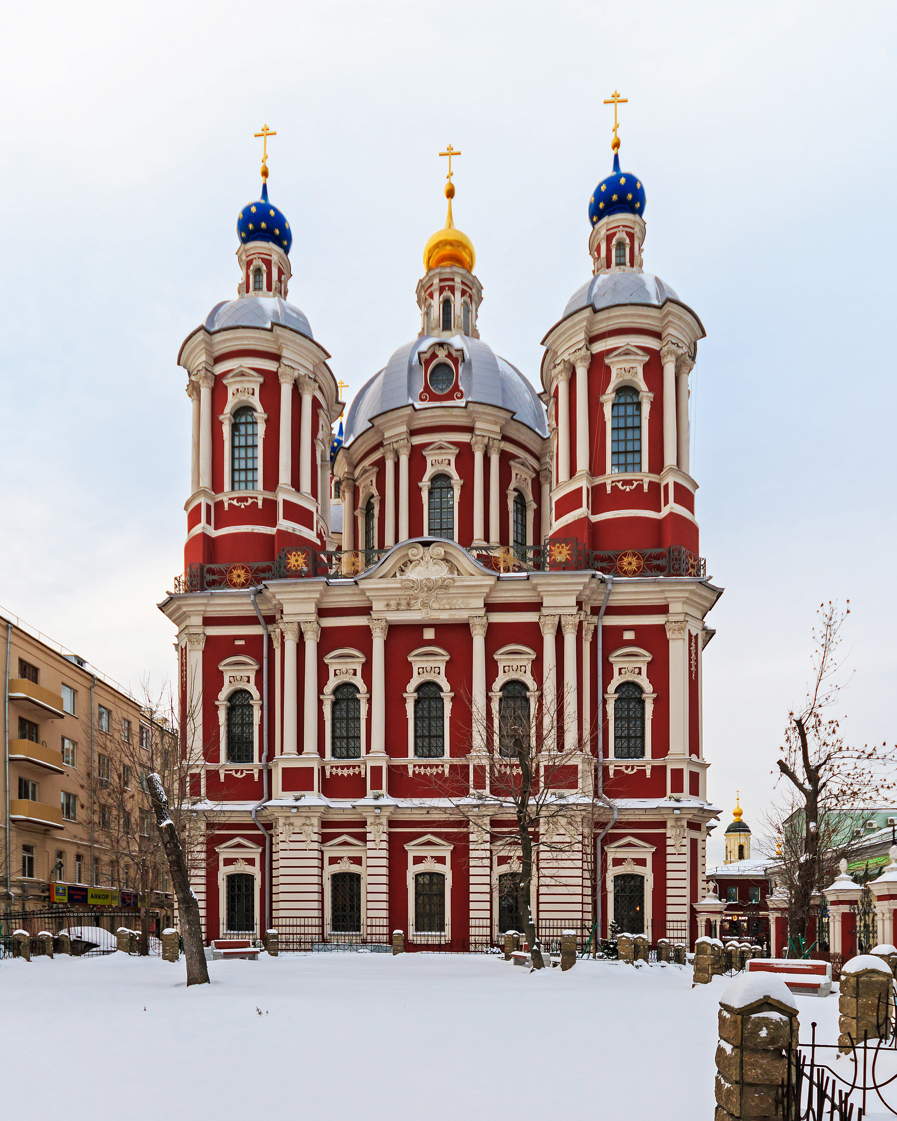 Church of Saint Clement, the Pope of Rome, in Moscow